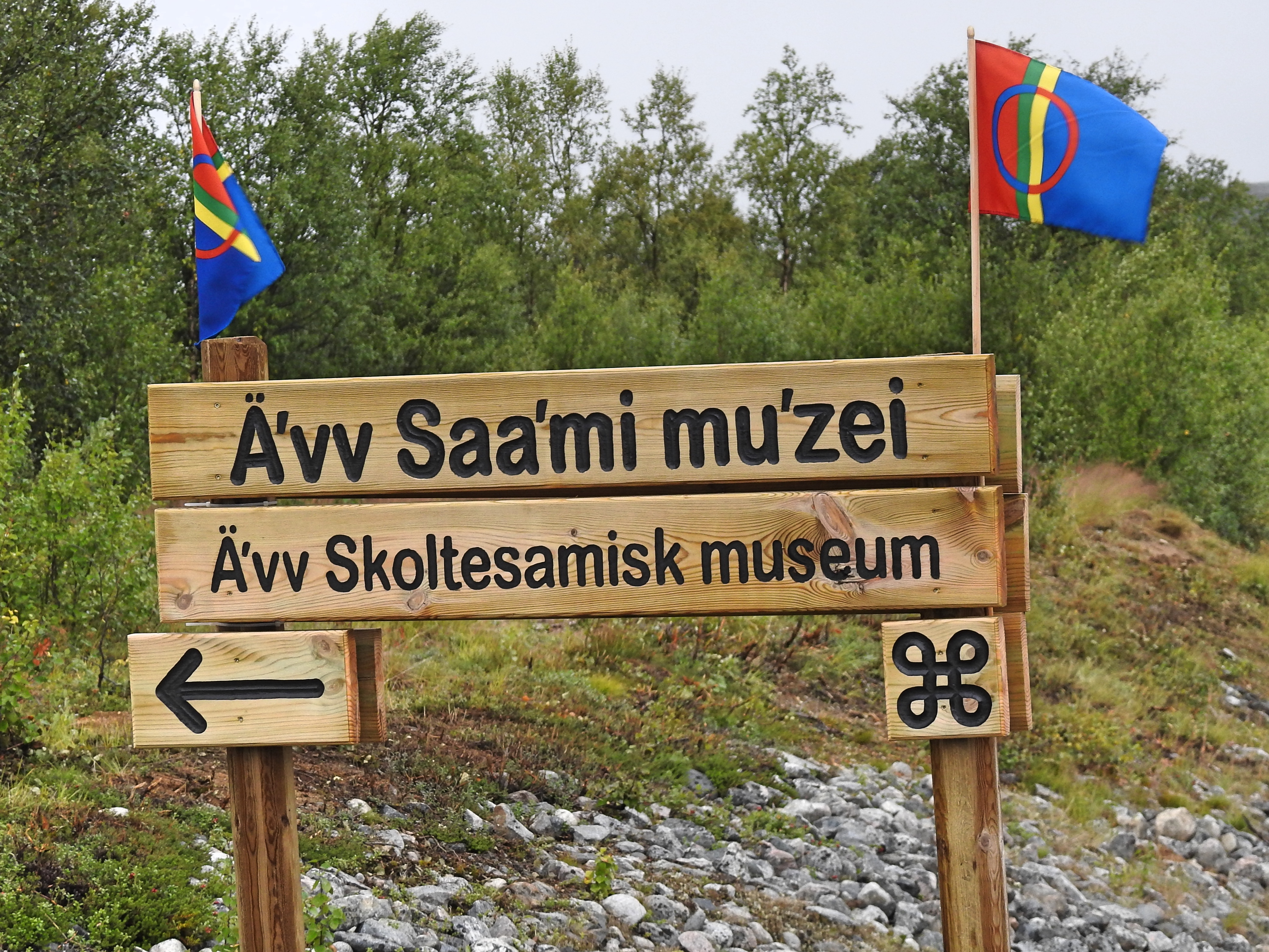 Sign Äʹvv Skoltsami Museum in Neiden